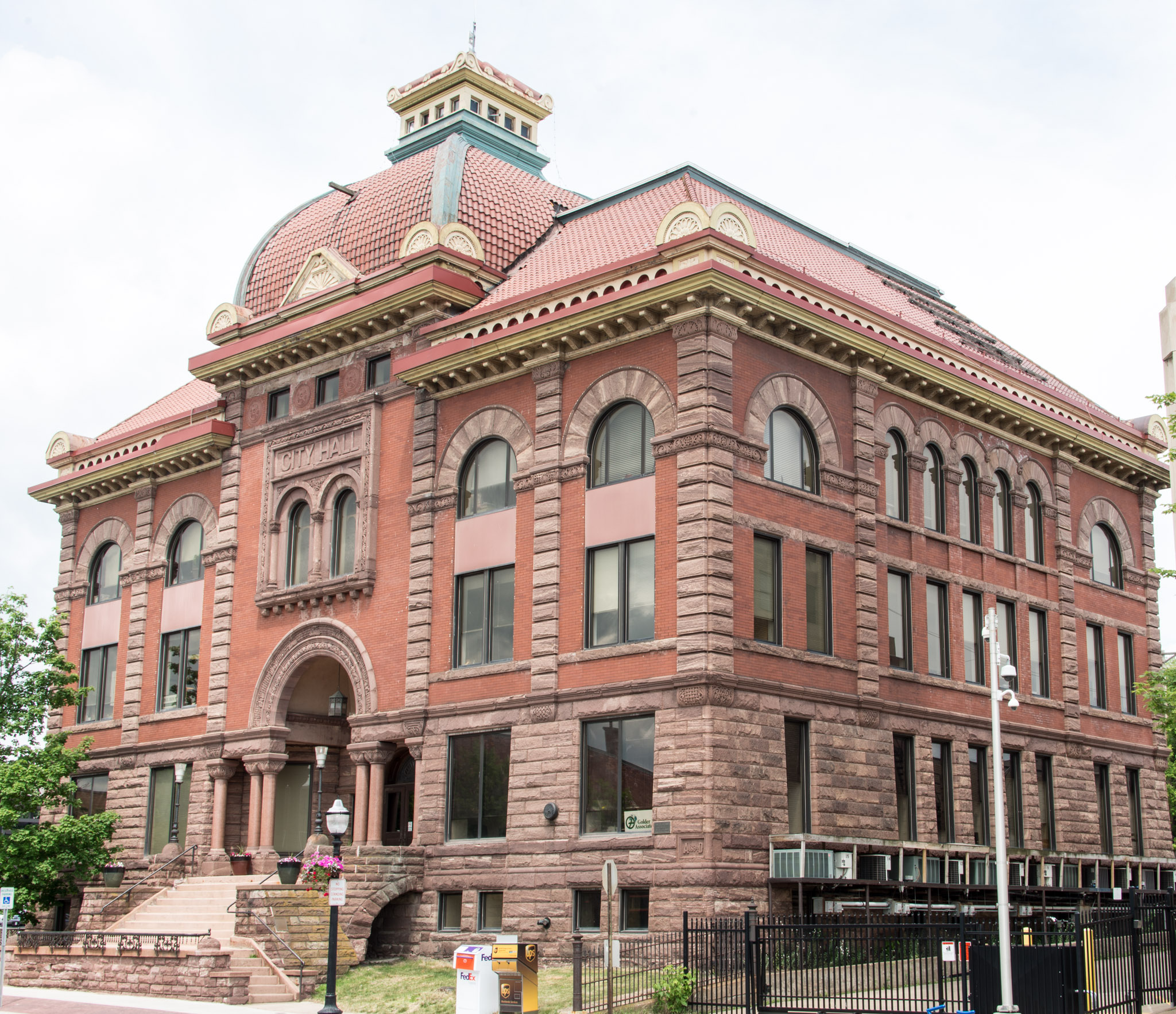 In 1894 the city of Marquette, Michigan constructed this building as its city hall. The city used the building until 1975, and then sold it to a developer who converted it into professional offices. This is listed in the National Register of Historic Places.